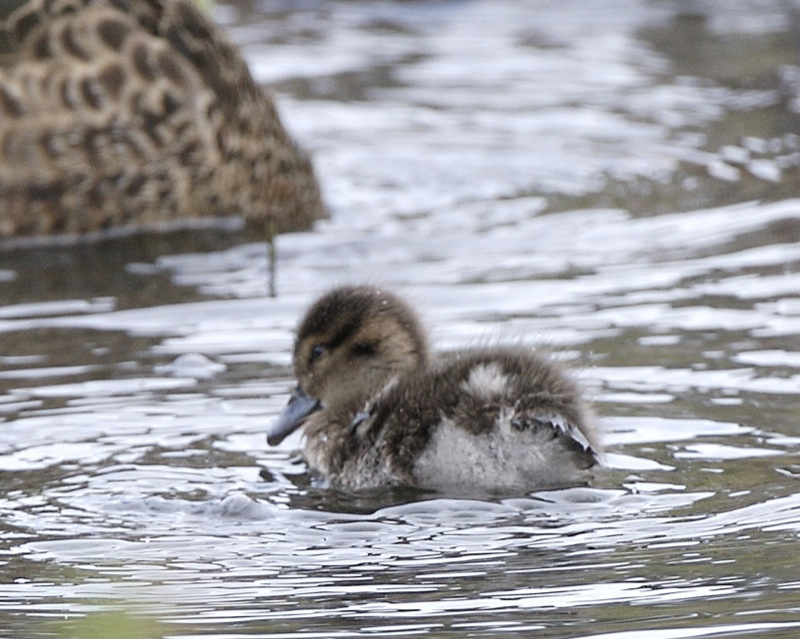 Chestnut Teal - duckling Anas castanea, Trin Warren Tam-boore, Royal Park, Melbourne, Victoria, Auatralia